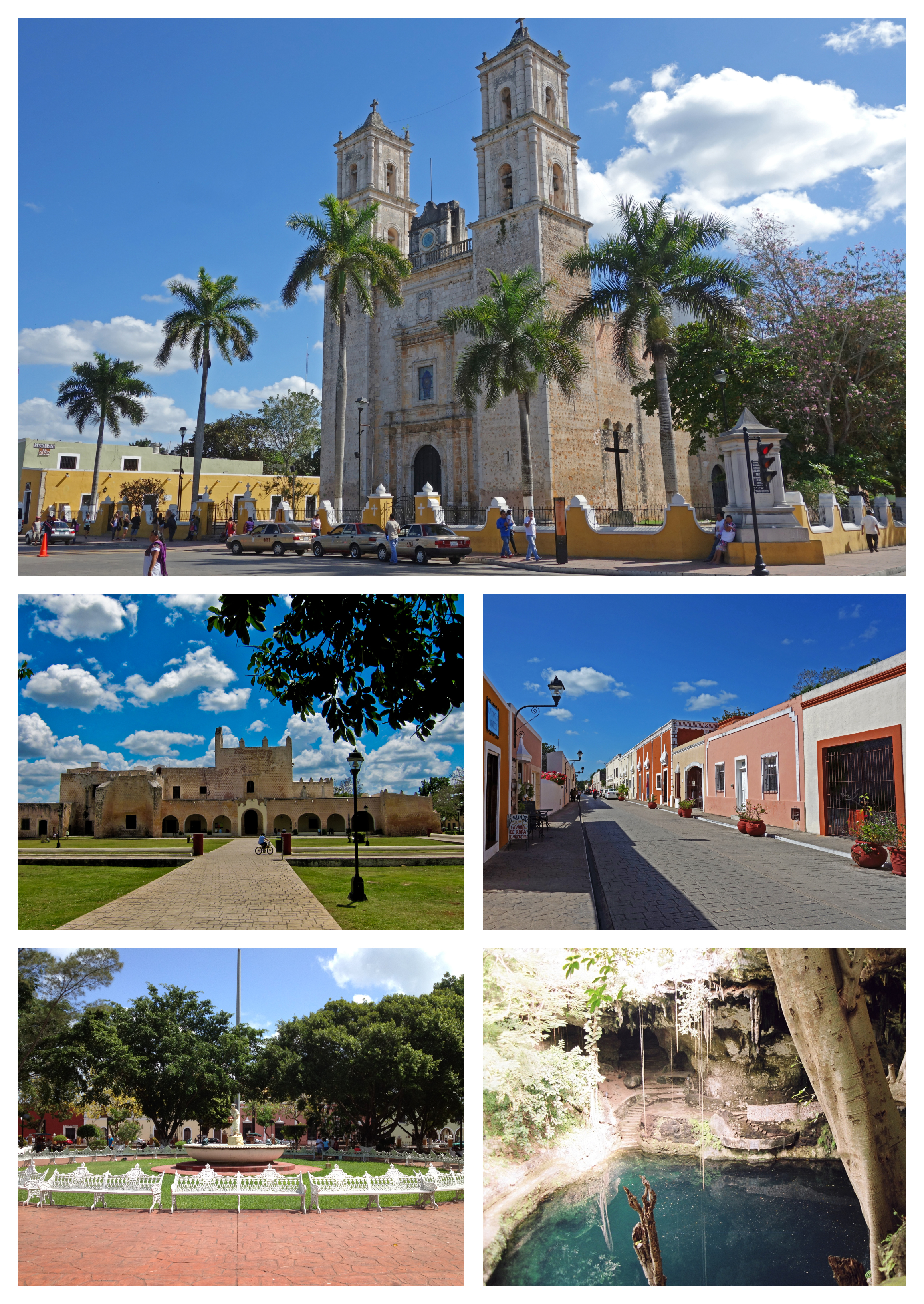 Collage of Valladolid, Yucatan